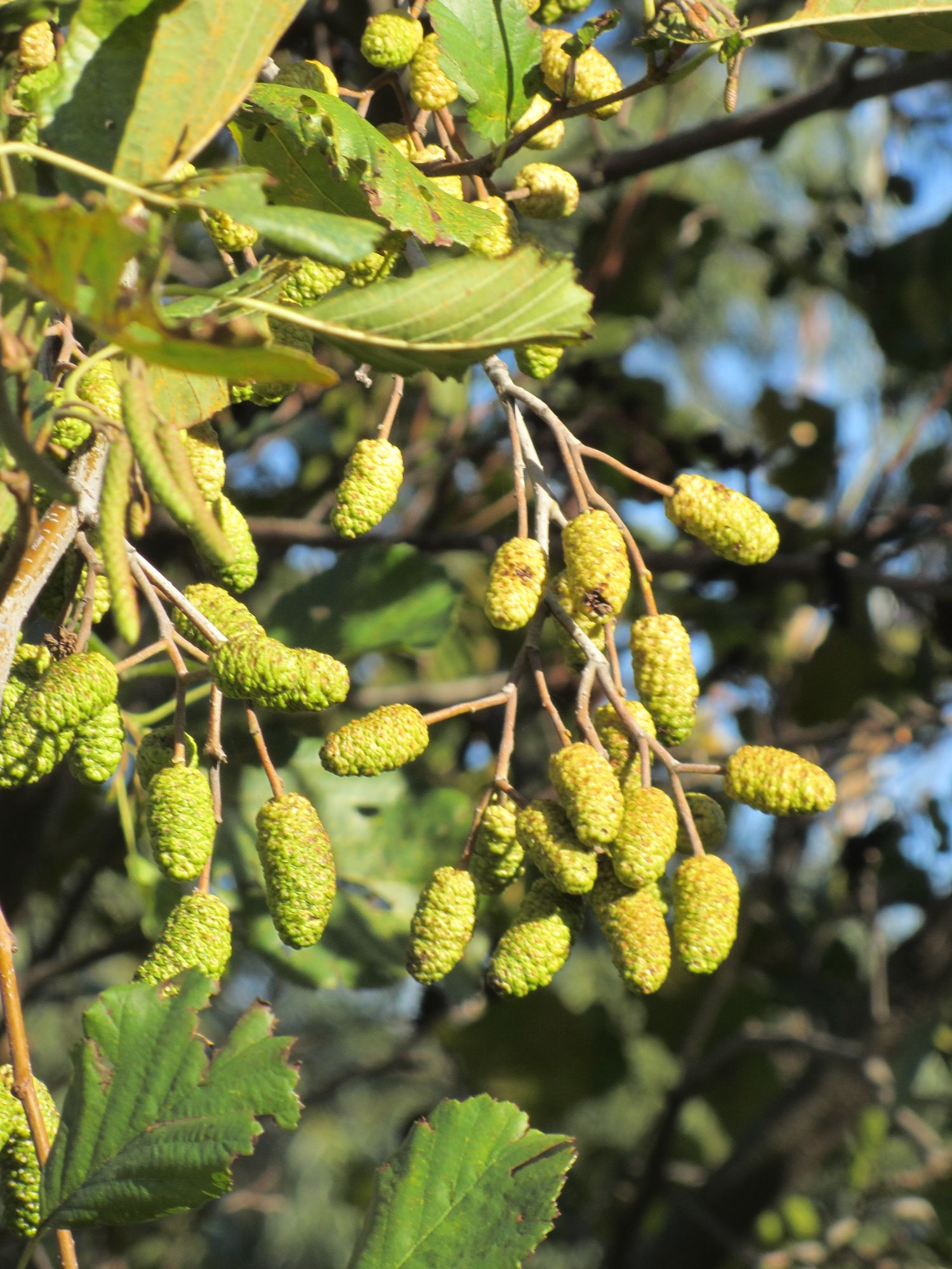 This photograph with inmature fruits of the black alder was taken on 2013-11-07 at the Getxo municipality (43.337N, 3.000W) of the Bizkaia province of the Basque Country (Europe), using a Canon PowerShot S230 camera. The original size was 3000x4000 pixels, it was reduced to the present size (1500x2000 pixels) using the IrfanView freeware program.